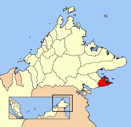 Map of Semporna